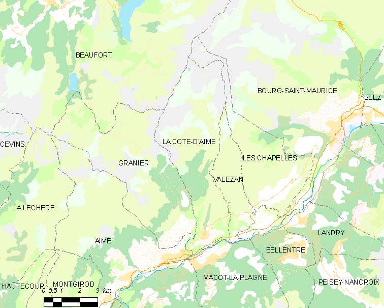 Map of French municipality